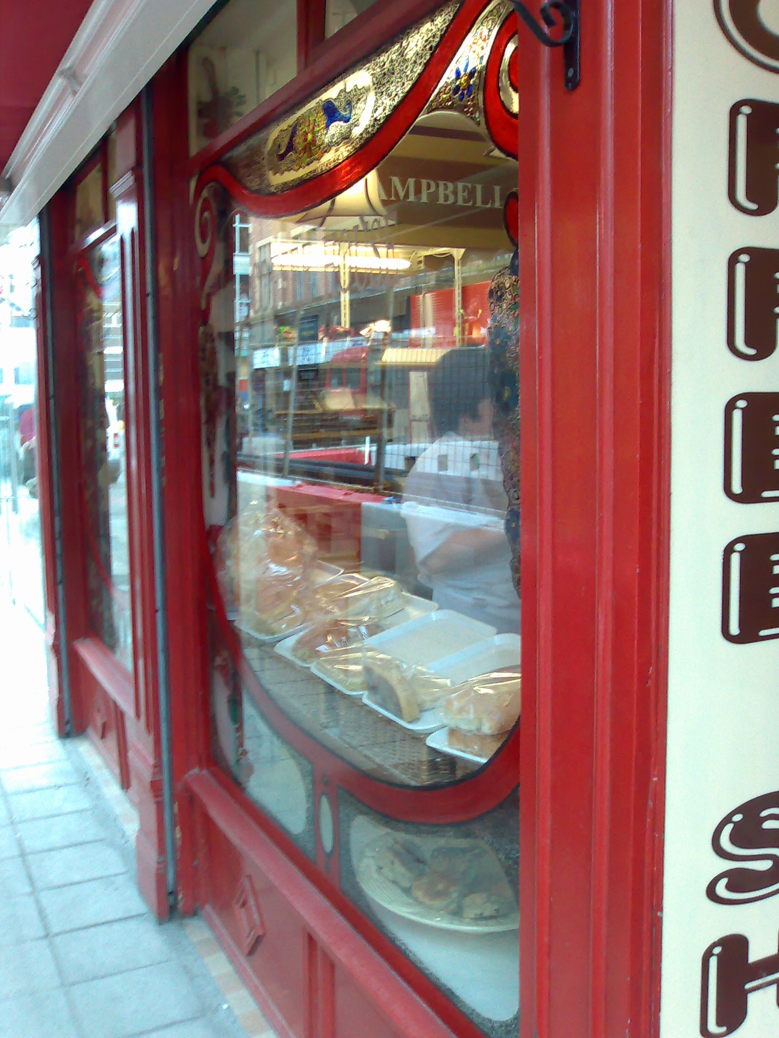 Montra de pão em Belfast. Bread on display in Belfast.